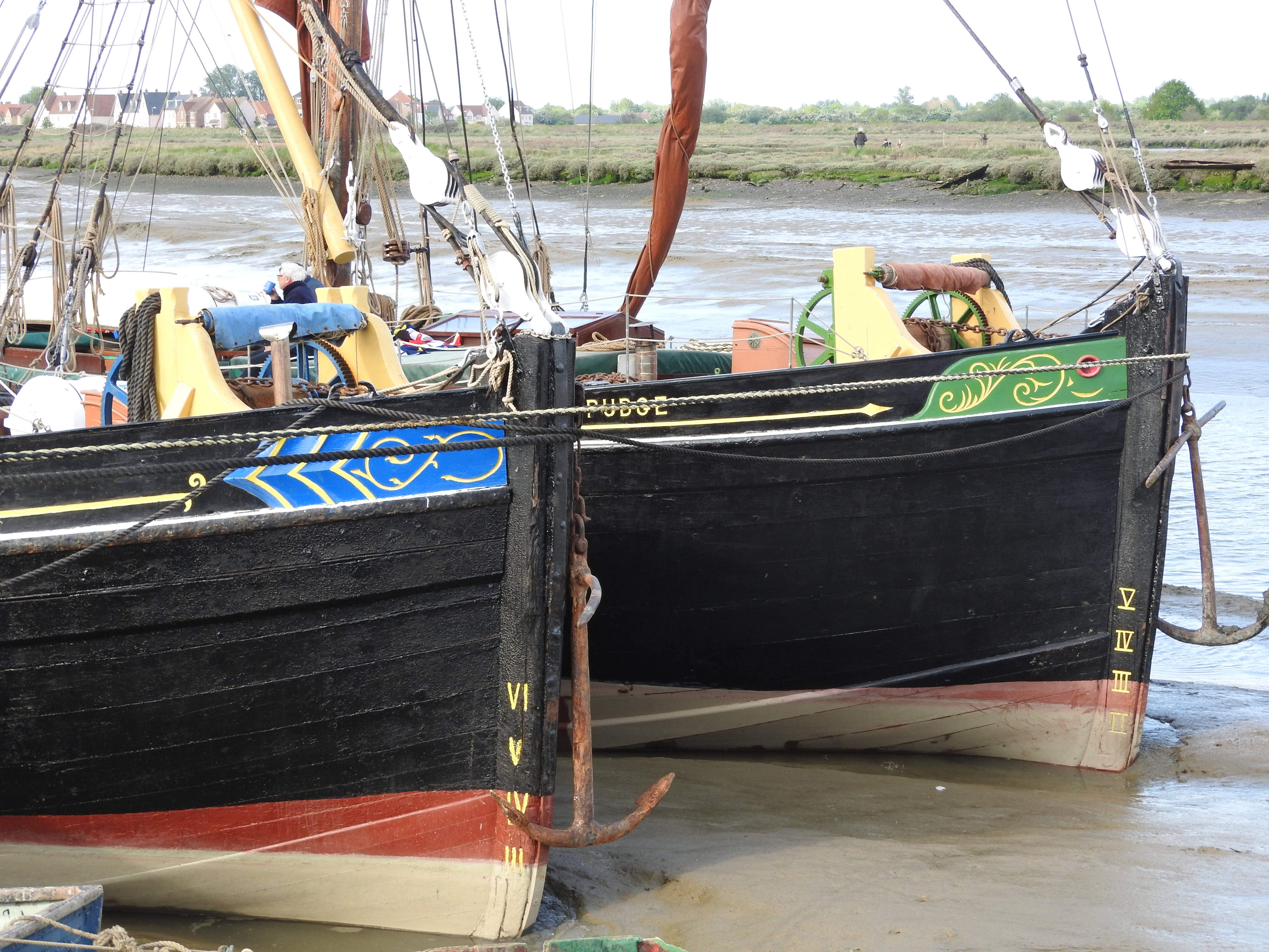 SB Centaur (1895). Thames Sailng Barge Trust- Pudge (1922) and Centaur (1895), and the lighter Sailorman (1931) are moored at Hythe Quay, Maldon.